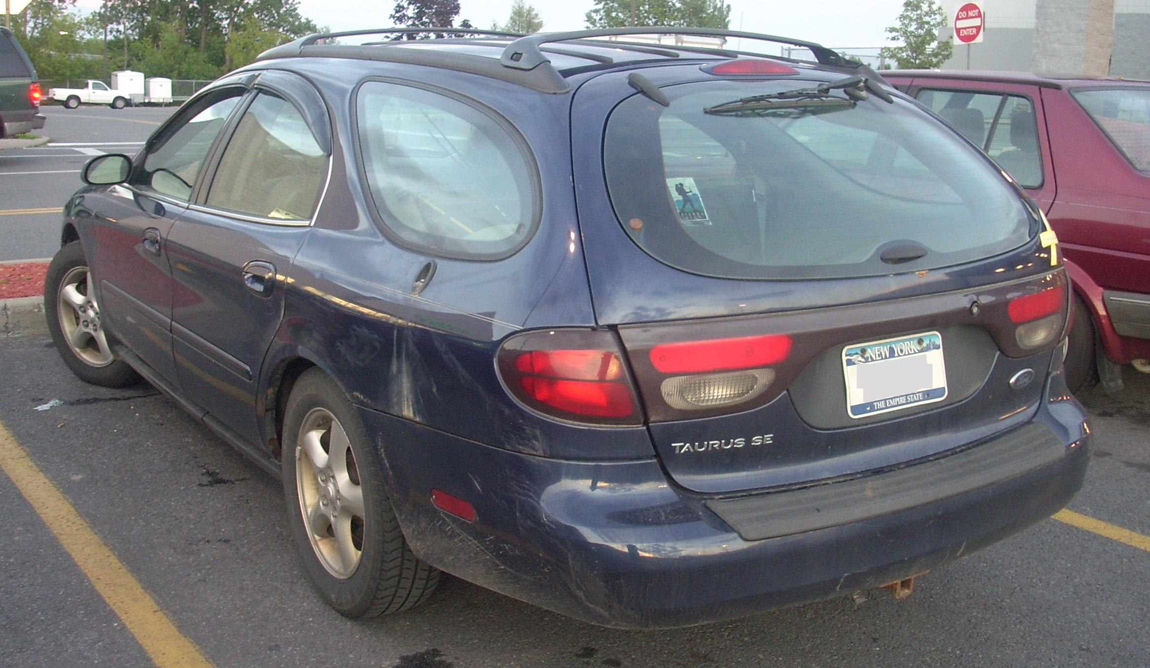 2000-2003 Ford Taurus photographed in Plattsburgh, New York, USA.